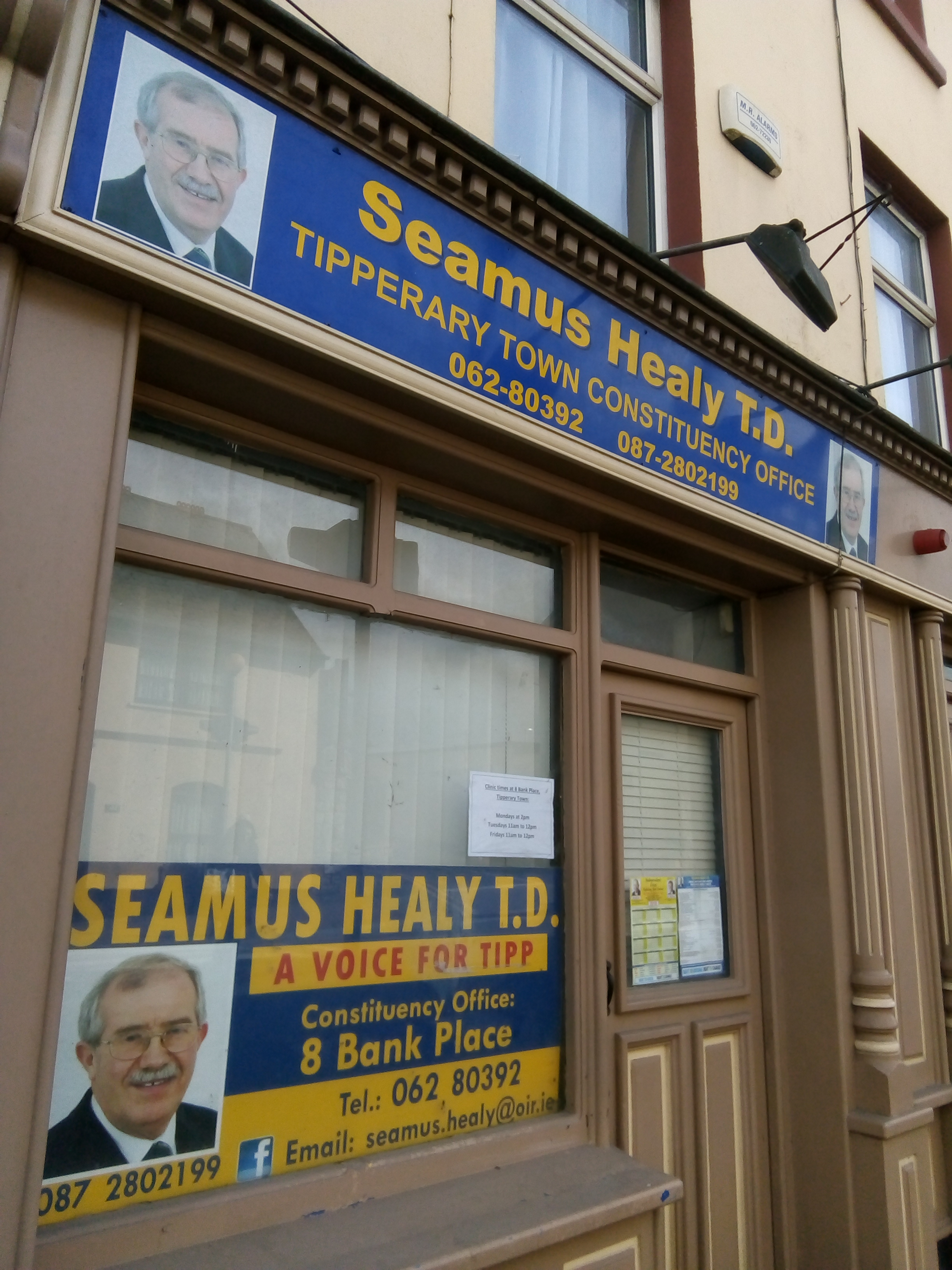 Seamus Healy office, Tipp